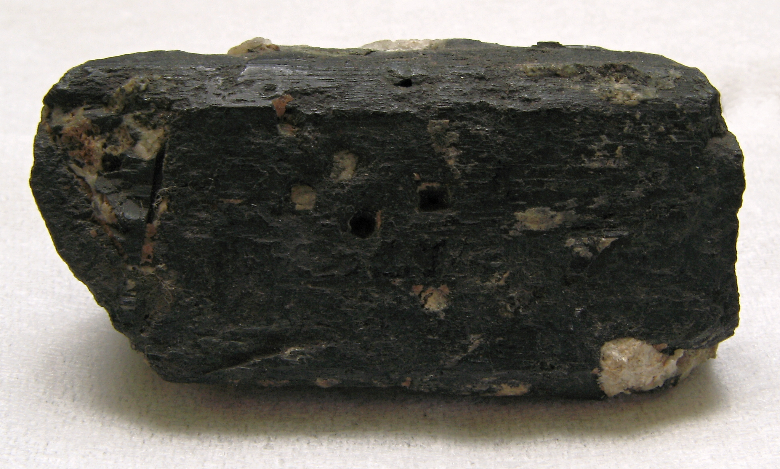 Aenigmatite Locality: from the sodalite-syenite of Kangerdluarsuk (Kangerdluarssuq), Greenland Exposed in the Mineralogical Museum of University Bonn, Germany